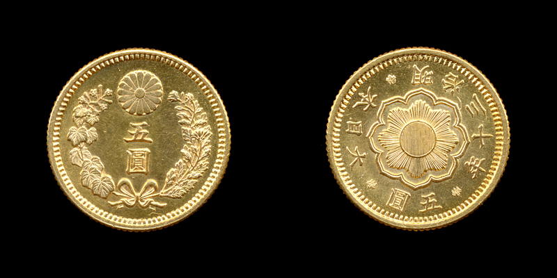 5yen-M30